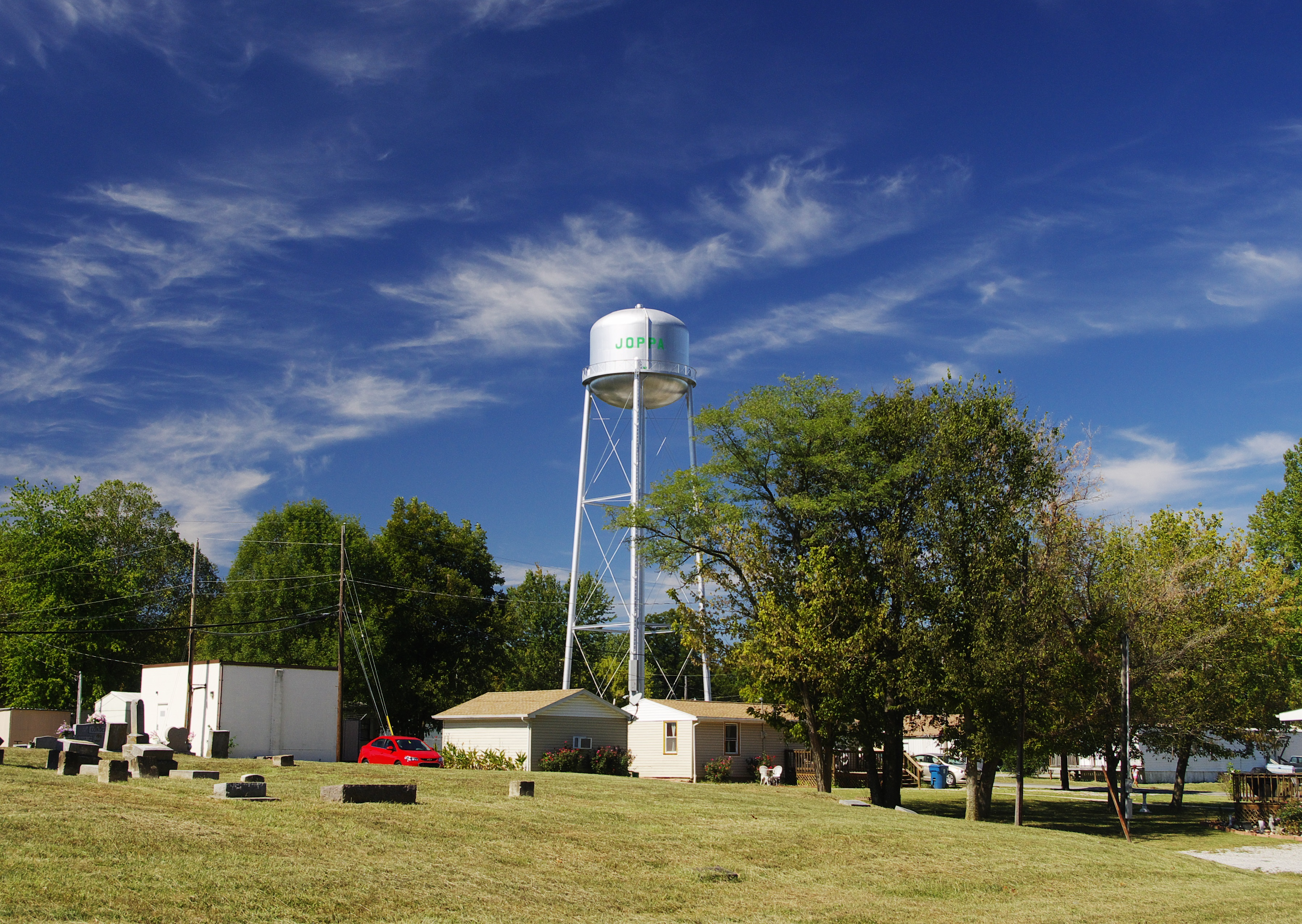 Water tower and buildings in Joppa, Illinois, United States.